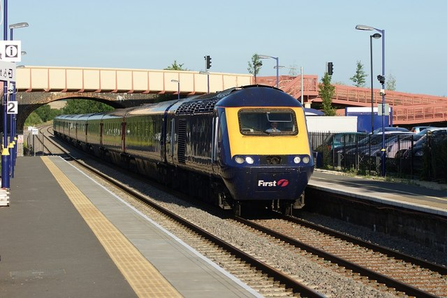 High Speed Train at Honeybourne First Great Western power car No 43164 leads a London Paddington to Hereford service into the newly refurbished and extended Honeybourne Station.